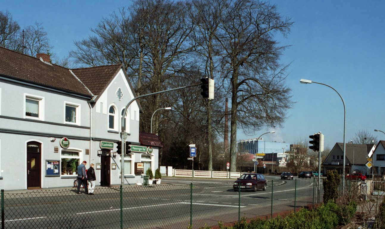 Moorrege (Schleswig-Holstein, Germany), photo 1997